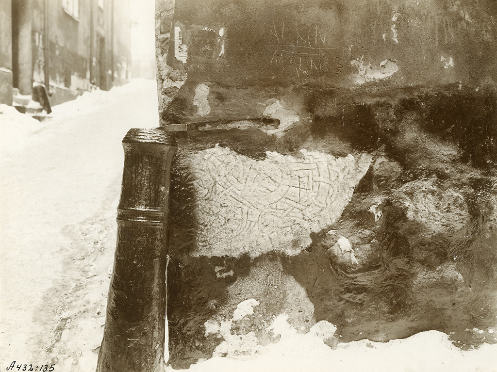 Rune stone (U 53) in the Old Town in Stockholm, at the corner of streets Kåkbrinken and Prästgatan. The inscription says: "Torsten and Frögunn they (raised the) ... stone in memory of ... their son." The stone was used as building material in the foundations of the house. The cannon was placed there in the 17th century to protect the corner from coaches. Format: Albumen print